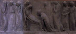 Sculpture by Frederic Marès in the Santa Maria del Mar church in Barcelona